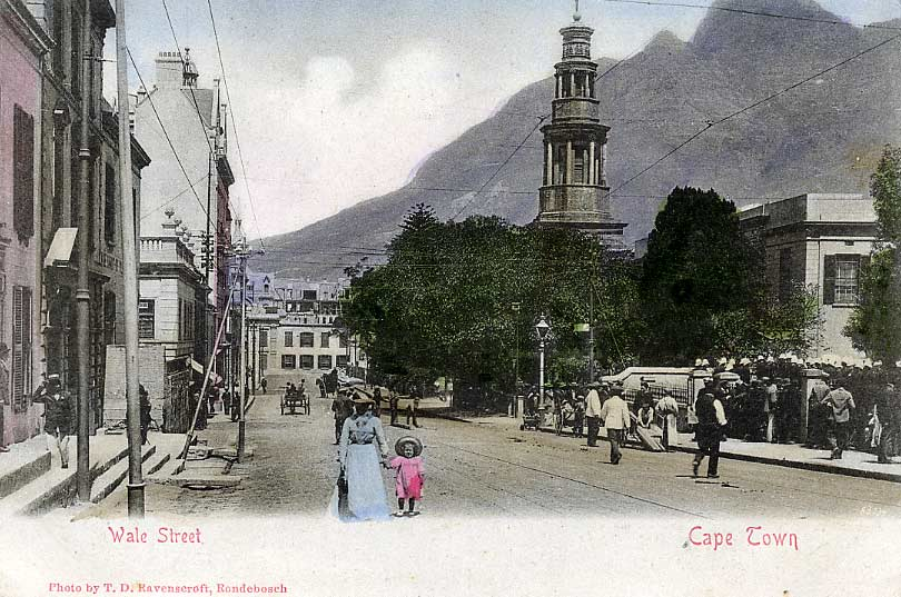 View of Wale Street, Cape Town c1905. Photograph of an original postcard published c1905 by T.D. Ravenscroft, Rondebosch.